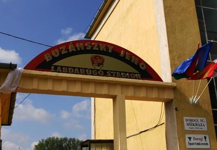 Main entrance of stadium in 09.04.2010.